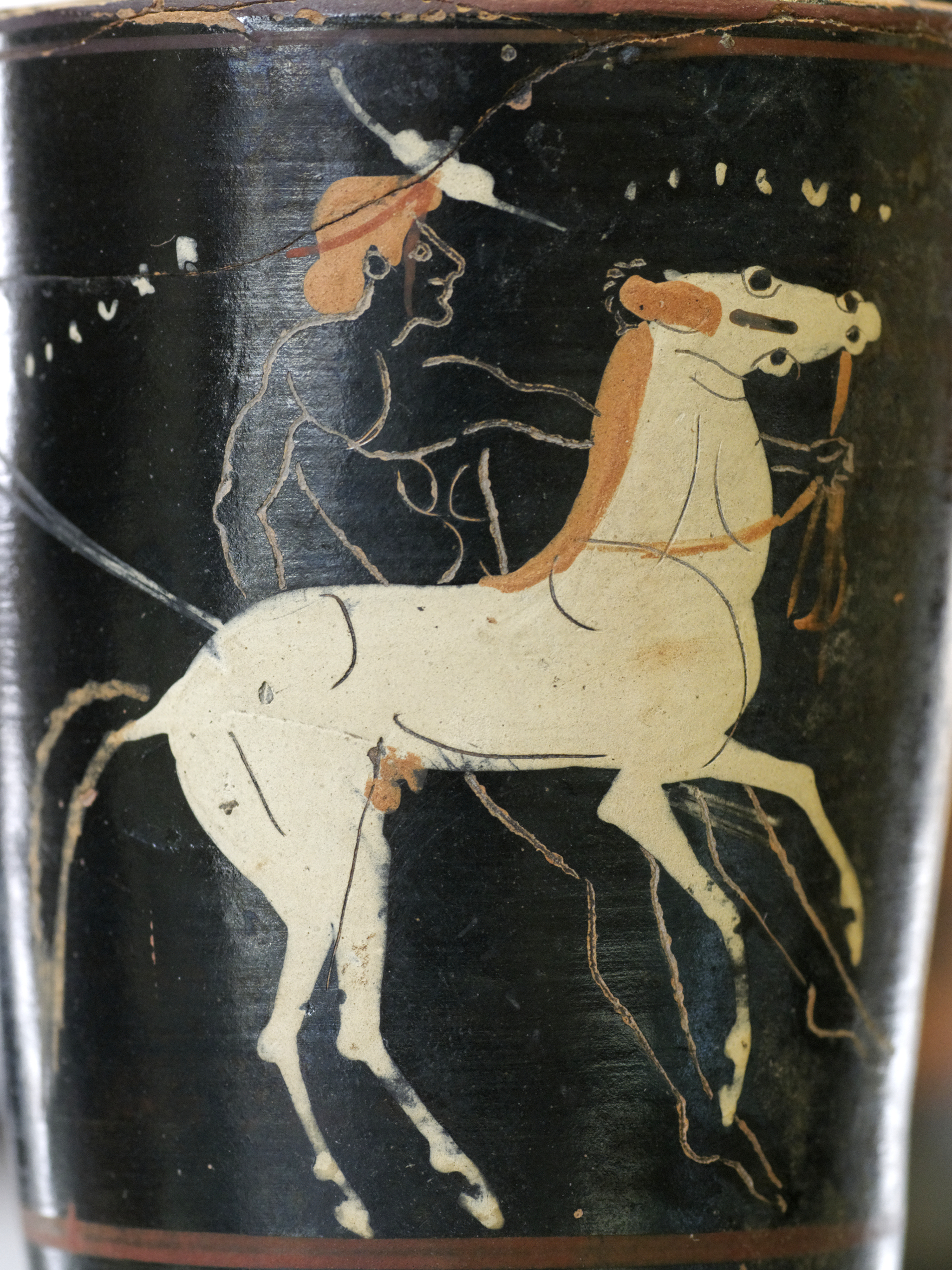 Youth wearing a petasos leading a horse. Attic black-figure lekythos in Six's technique.